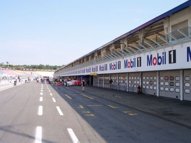 Boxengasse (Pitlane) Hockenheim